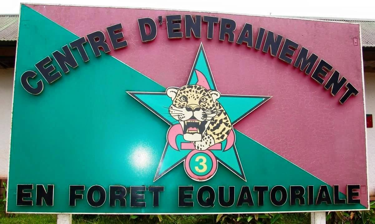 Main entrance of commando training center in Regina, French Guyana